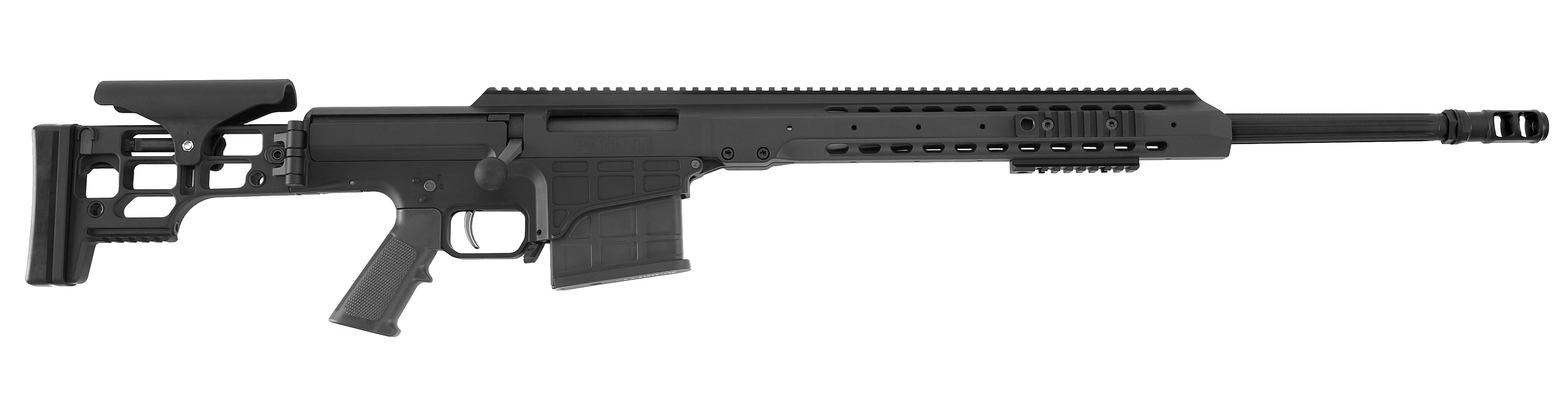 Barrett MRAD sniper rifle